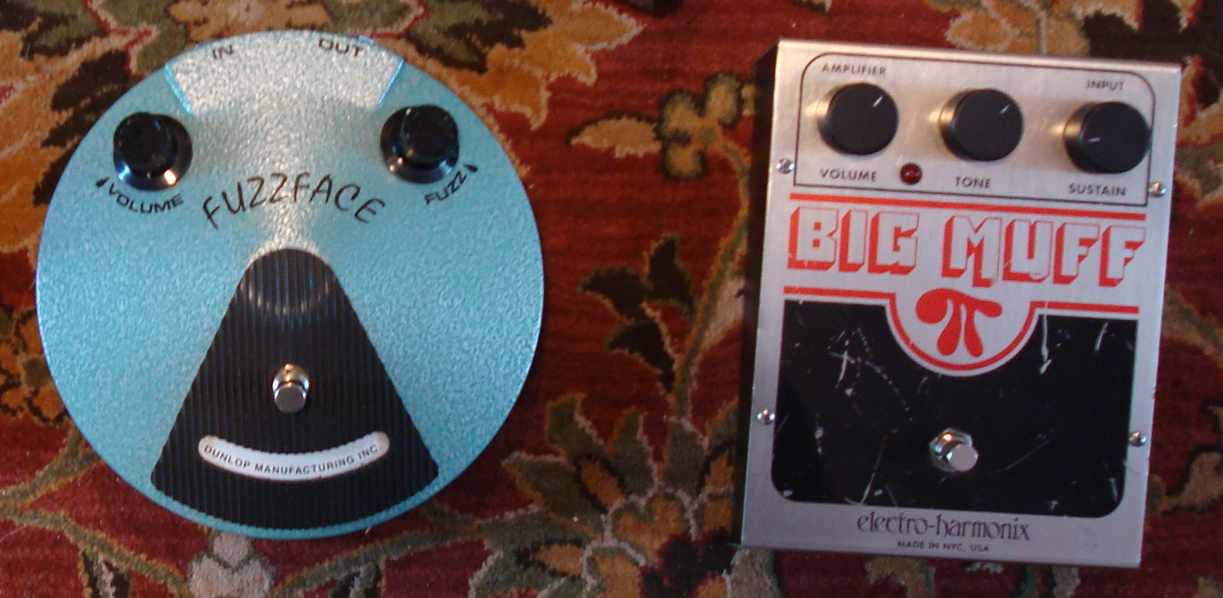 Part of the Compound Recordings pedal collection.